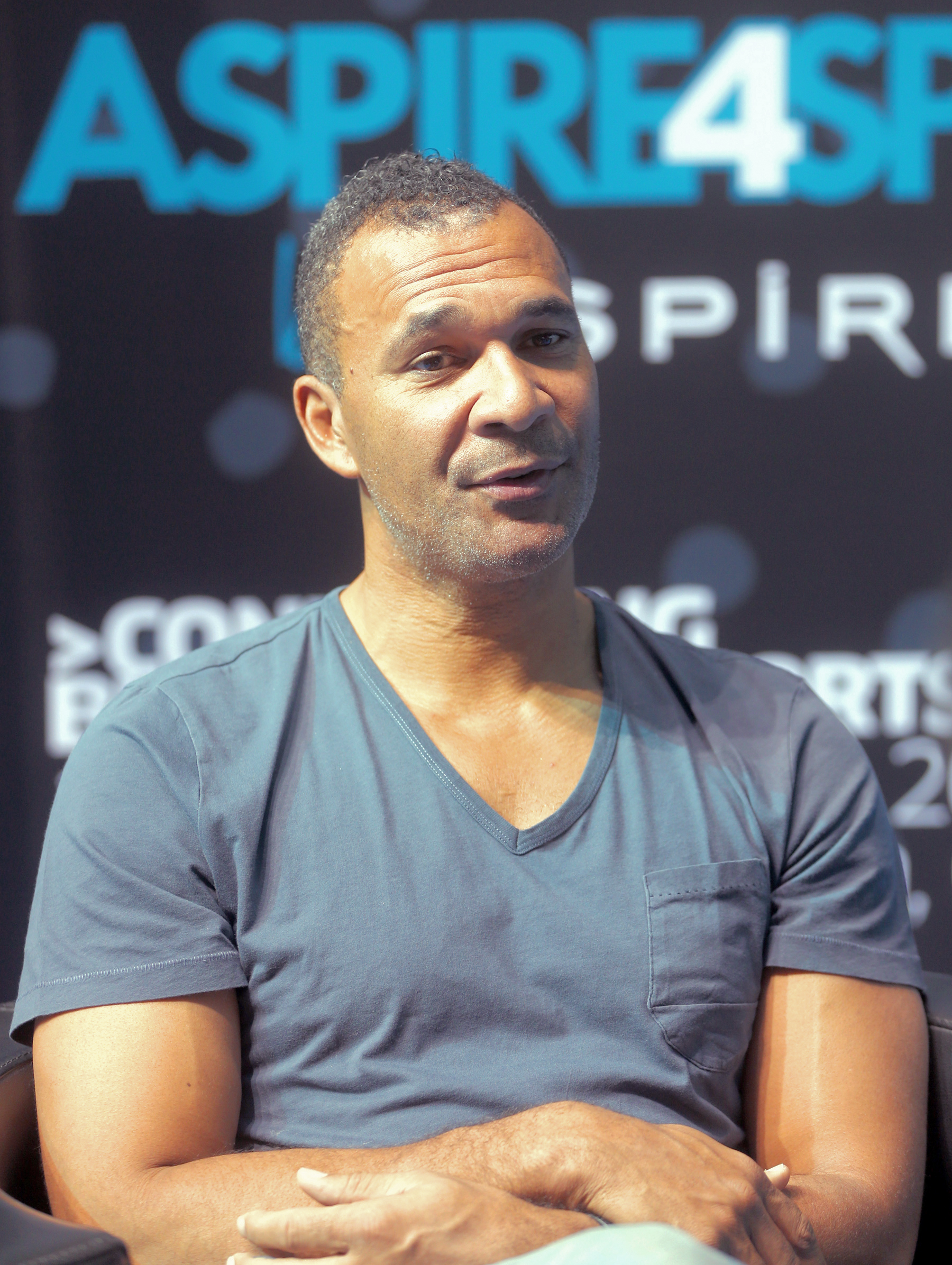 Dutch football legend Ruud Gullit during the Aspire4Sport Congress in Doha.